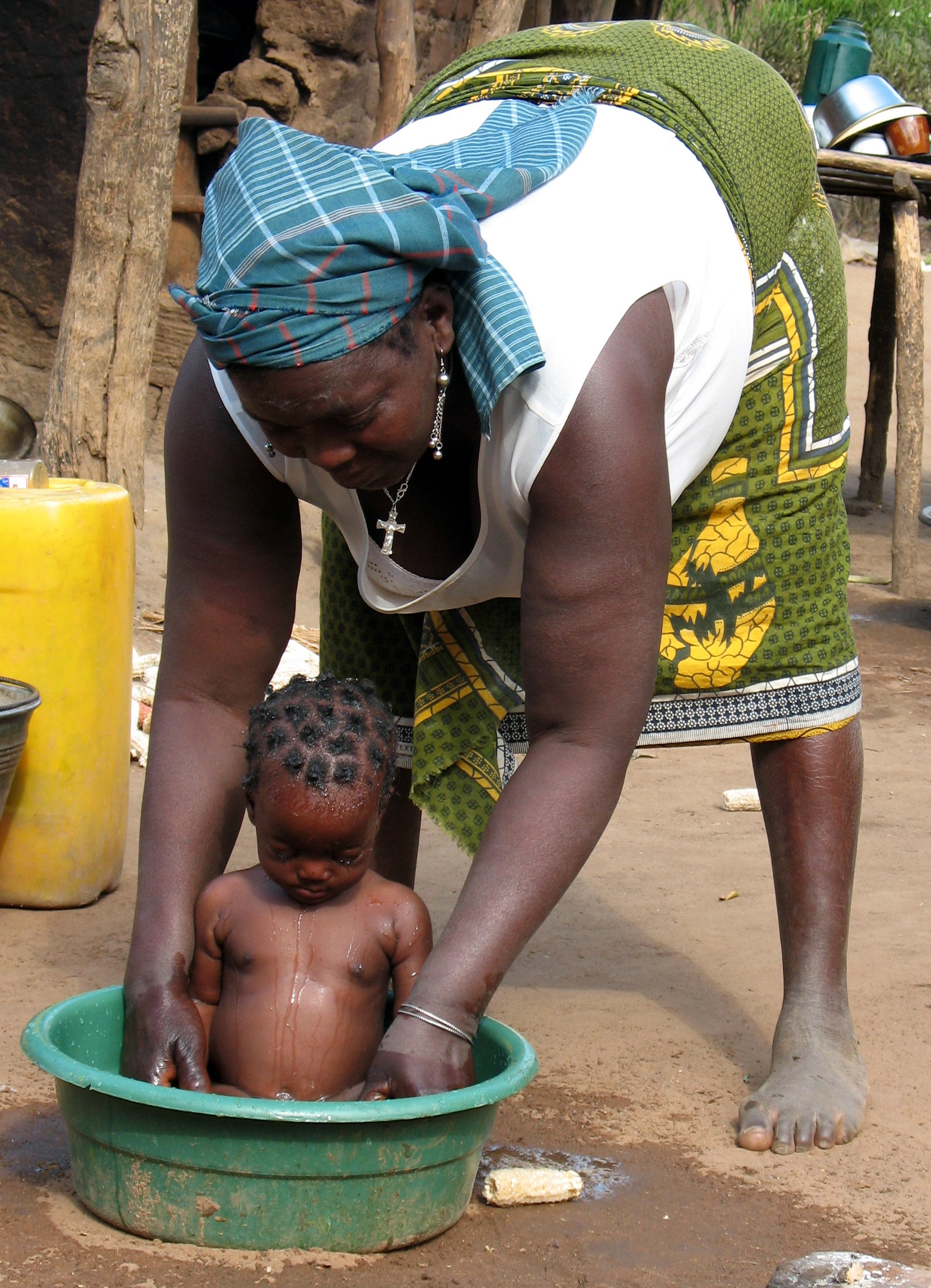 This is a classic pose in rural Mozambique. This is an image of "African people at work" from Mozambique